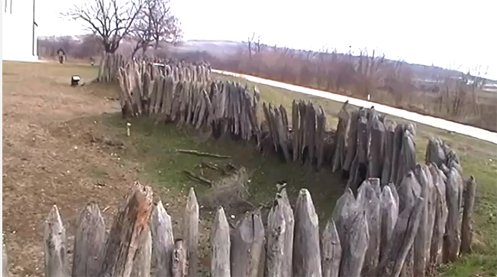 The remains of palisade fence of Deligrad fortress from battle of Deligrad 1806